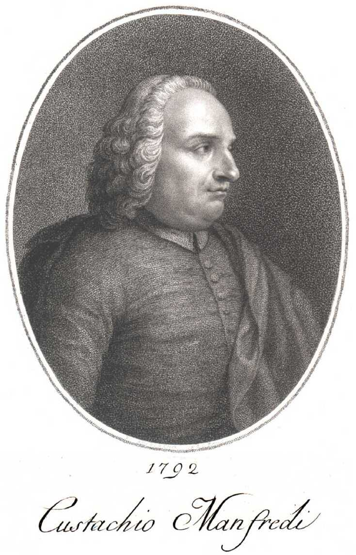 Eustachio Manfredi (20 September 1674 - 15 February 1739), an Italian mathematician, astronomer and poet. Engraving dated 1792 by Francesco Rosaspina, 1762-1841